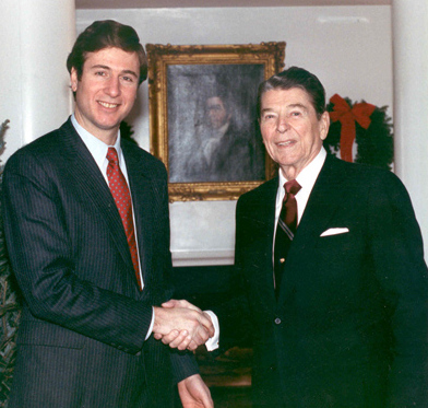 June 5, 2004 - "Ronald Reagan's determination and strength truly changed our nation and our world for the better. I grieve today for the loss of my modern day philosophical hero. But I am forever grateful that America, and indeed the world, was blessed with his common sense leadership and unwavering commitment to expanding freedom and democracy throughout the world." -Senator George Allen, June 5, 2004